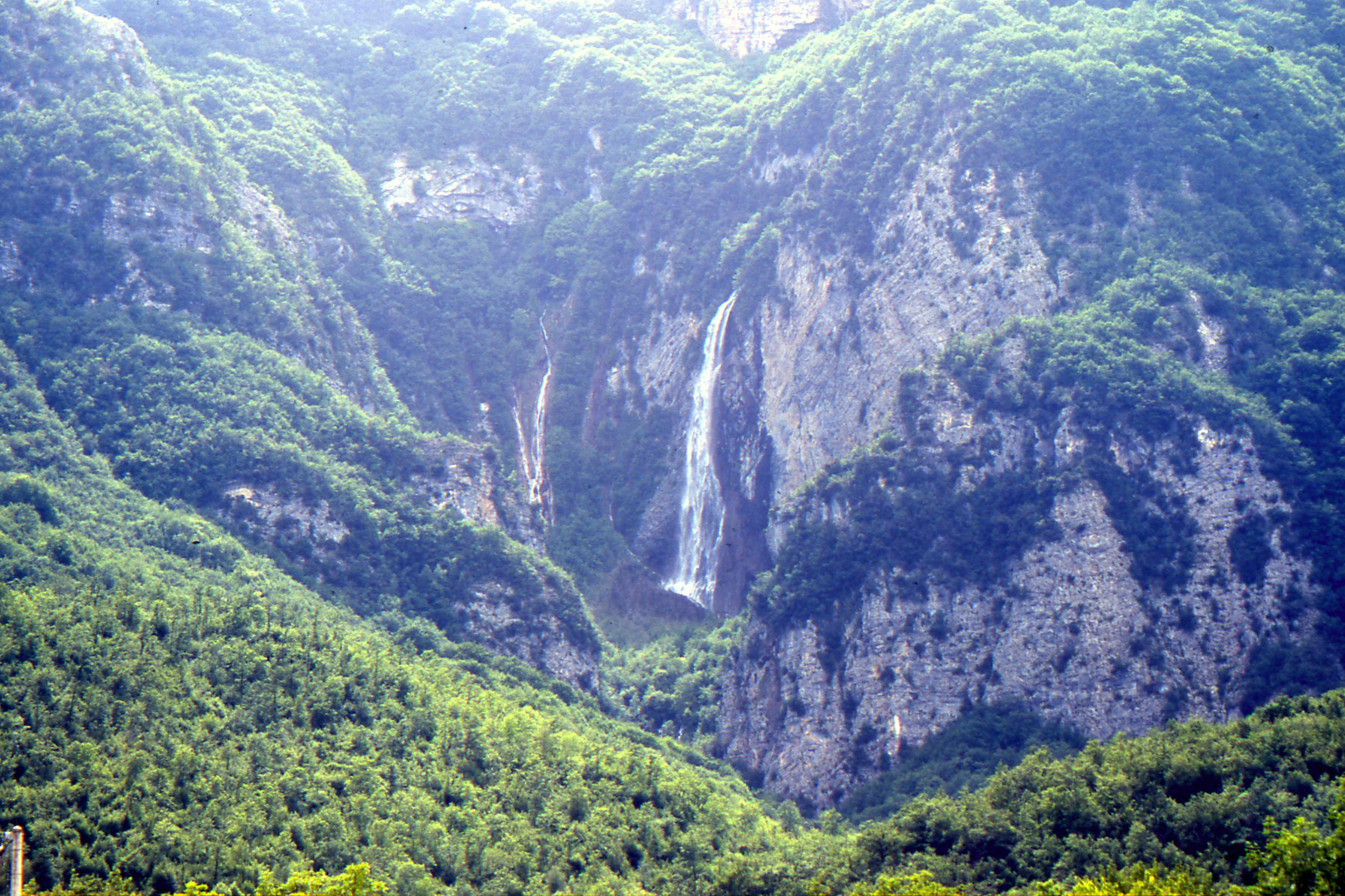 Waterfall Zompo lo Schioppo, Morino, Abruzzo, Italy